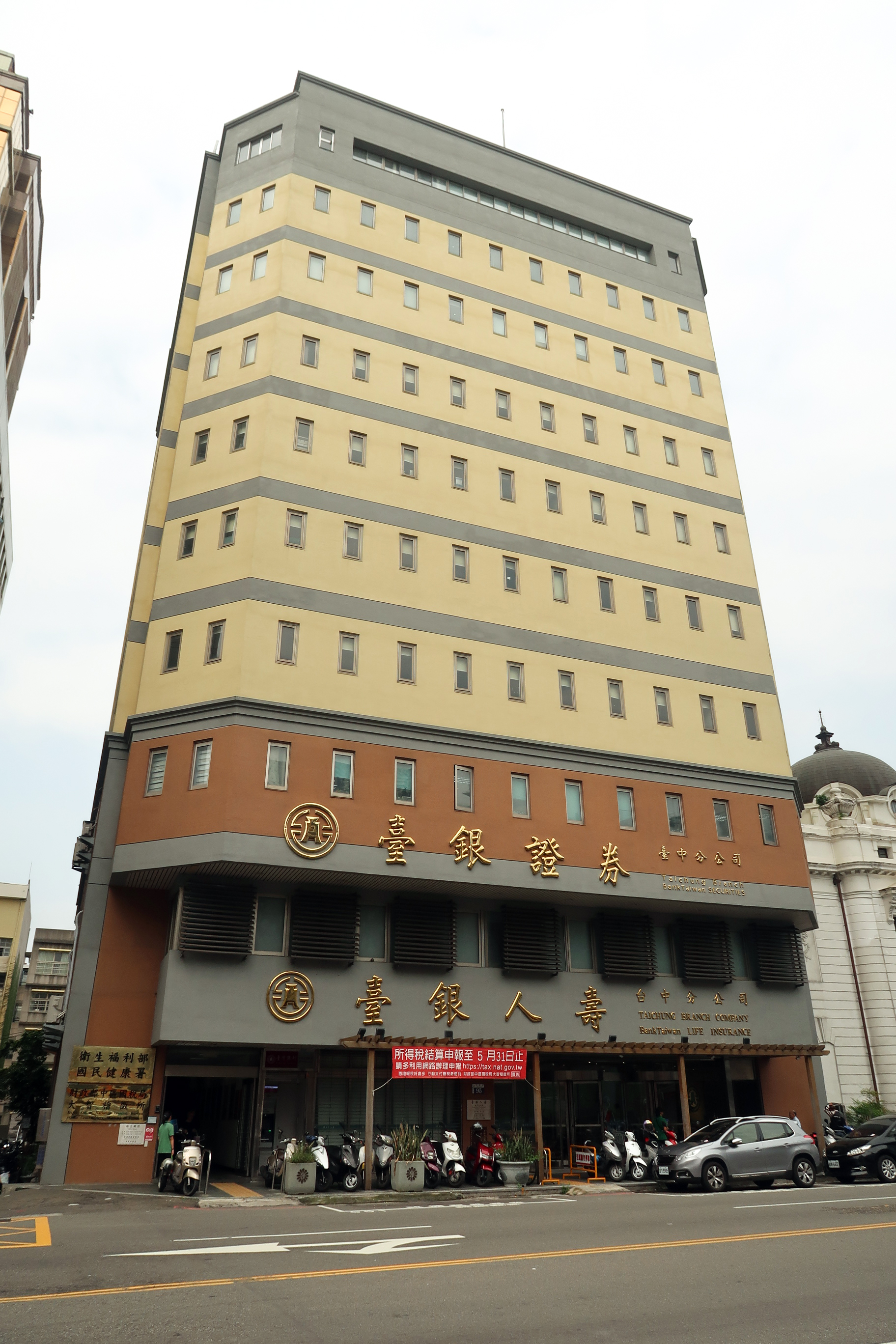 Taichung Branch, BankTaiwan Securities and BankTaiwan Life Insurance.